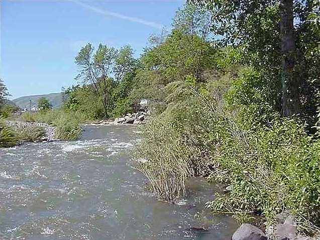 Potlatch River, a tributary of the Clearwater River in ID